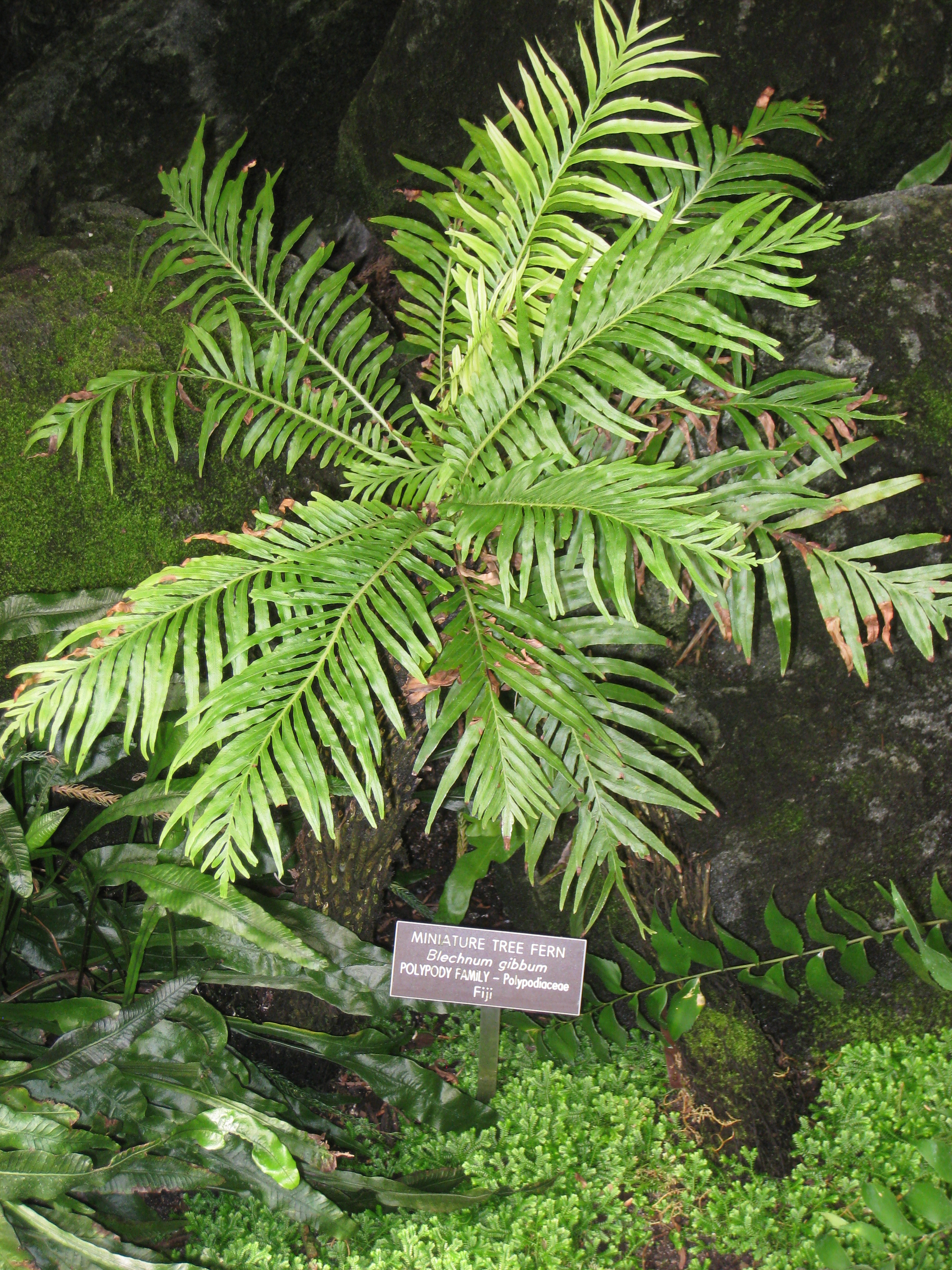 Blechnum gibbum, in the United States Botanic Garden, Washington, DC, USA.